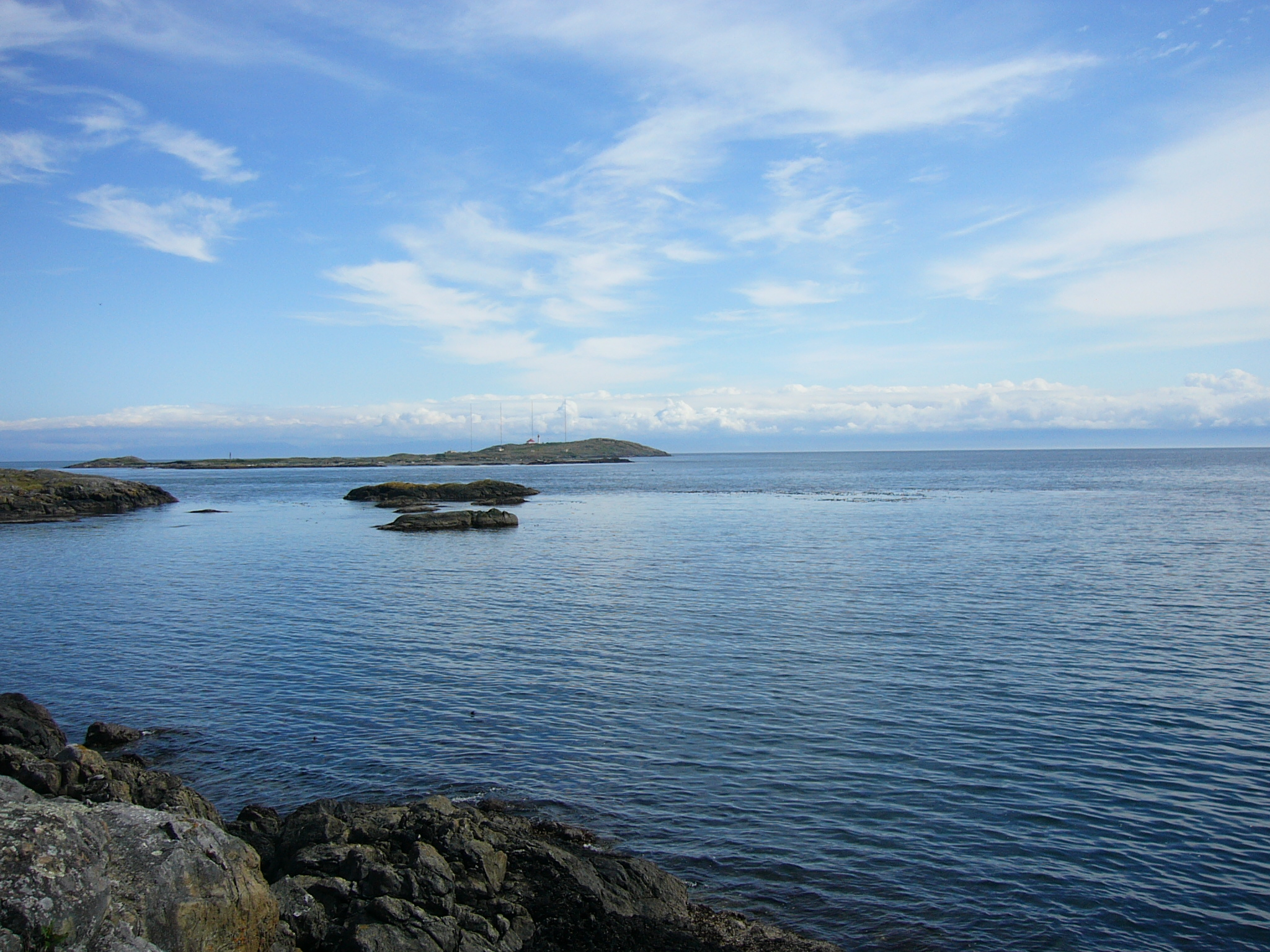 A view of the Trial Islands as seen approximately 2 km due north of them, from Beach Drive in Oak Bay.